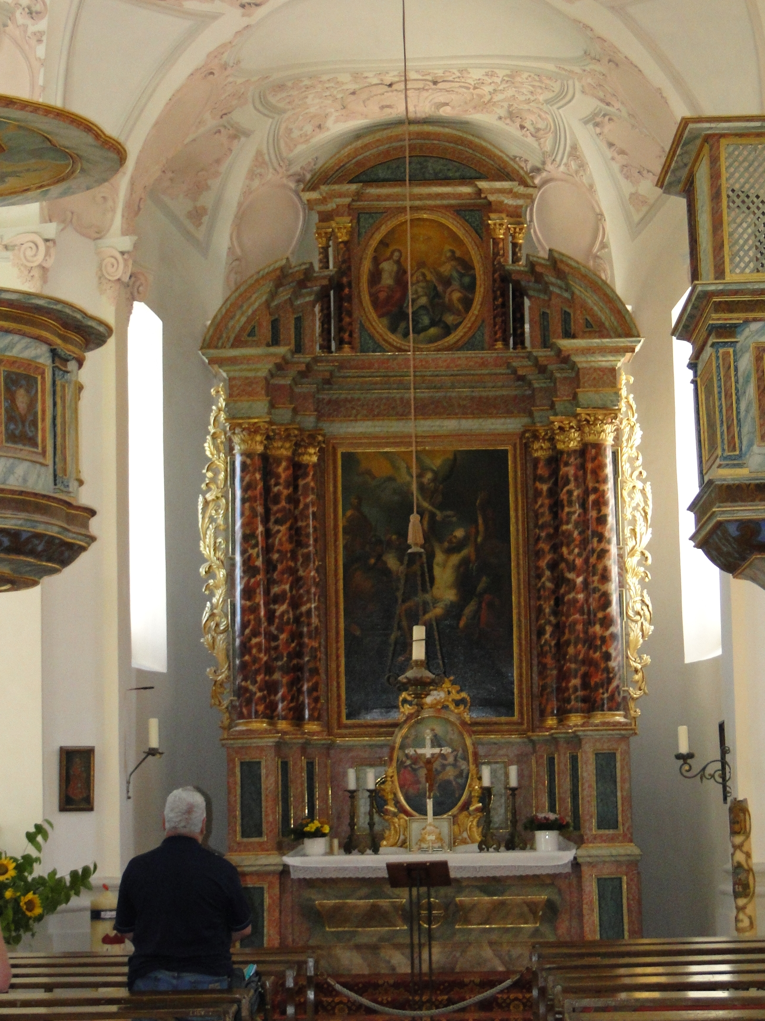 Main altar in the Chapel of St Bartholomew - Koenigssee - (Bavaria - Germany)